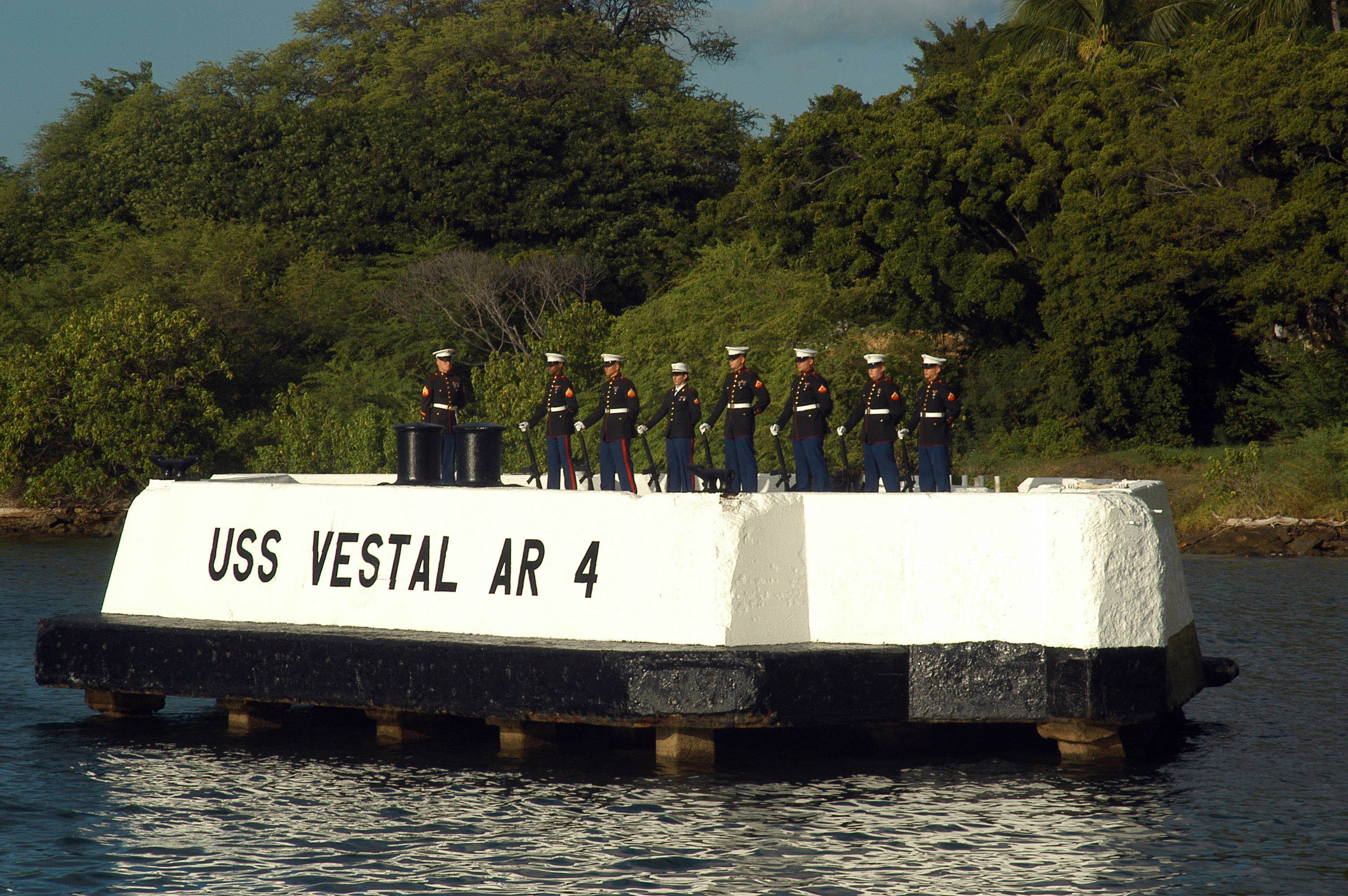 Pearl Harbor, Hawaii (Dec. 7, 2004) - U.S. Marines, assigned to Marine Aircraft Group Two Four (MAG-24), stand at parade rest prior to a twenty-one gun salute on the USS Vestal mooring quay. Vestal, a repair ship, was moored outboard of the battleship USS Arizona during the attack on Pearl Harbor. She was hit by two bombs and further damaged when Arizona’s forward magazines exploded. Repaired over the next few months, she was transferred to the South Pacific in August 1942, where she mended many combat-damaged ships during difficult times of the Guadalcanal and Central Solomons campaigns.